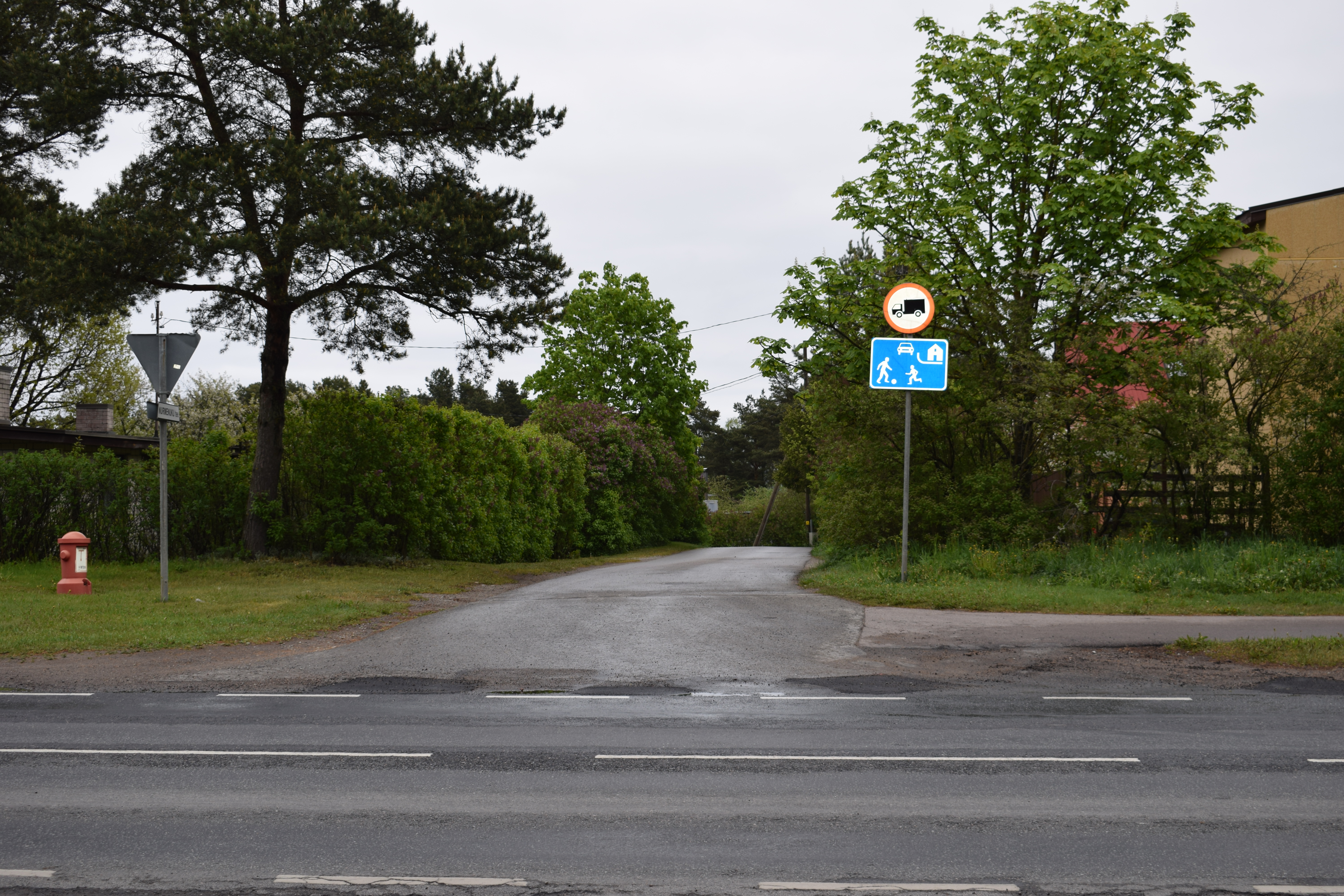 Nurmenuku road